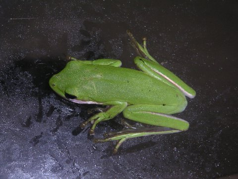 Created by Neutrality 18:14, 22 October 2005 (UTC).